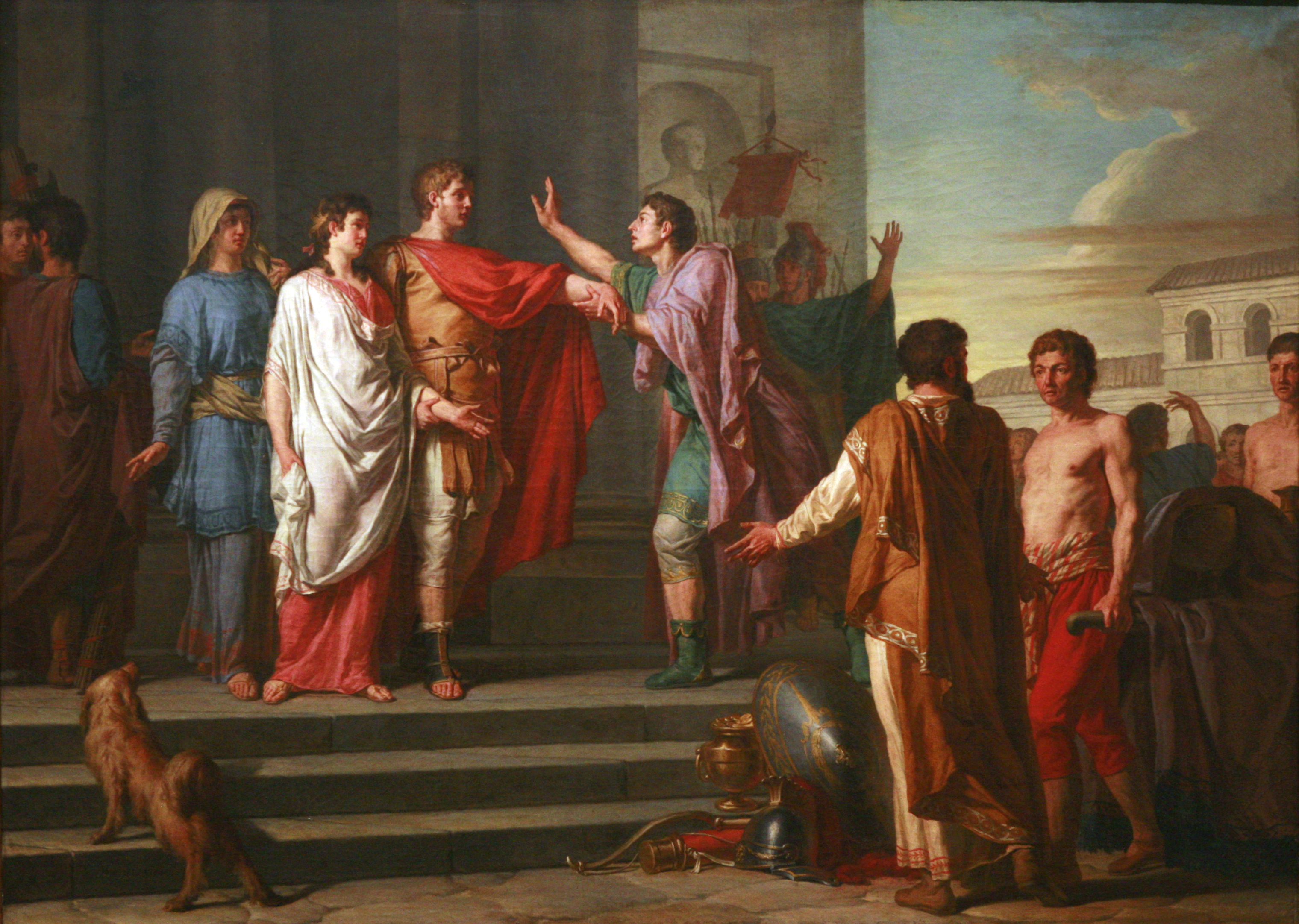 Continence of Scipio, Nicolas-Guy Brenet, oil on canvas, 1788. Accession number 1989.